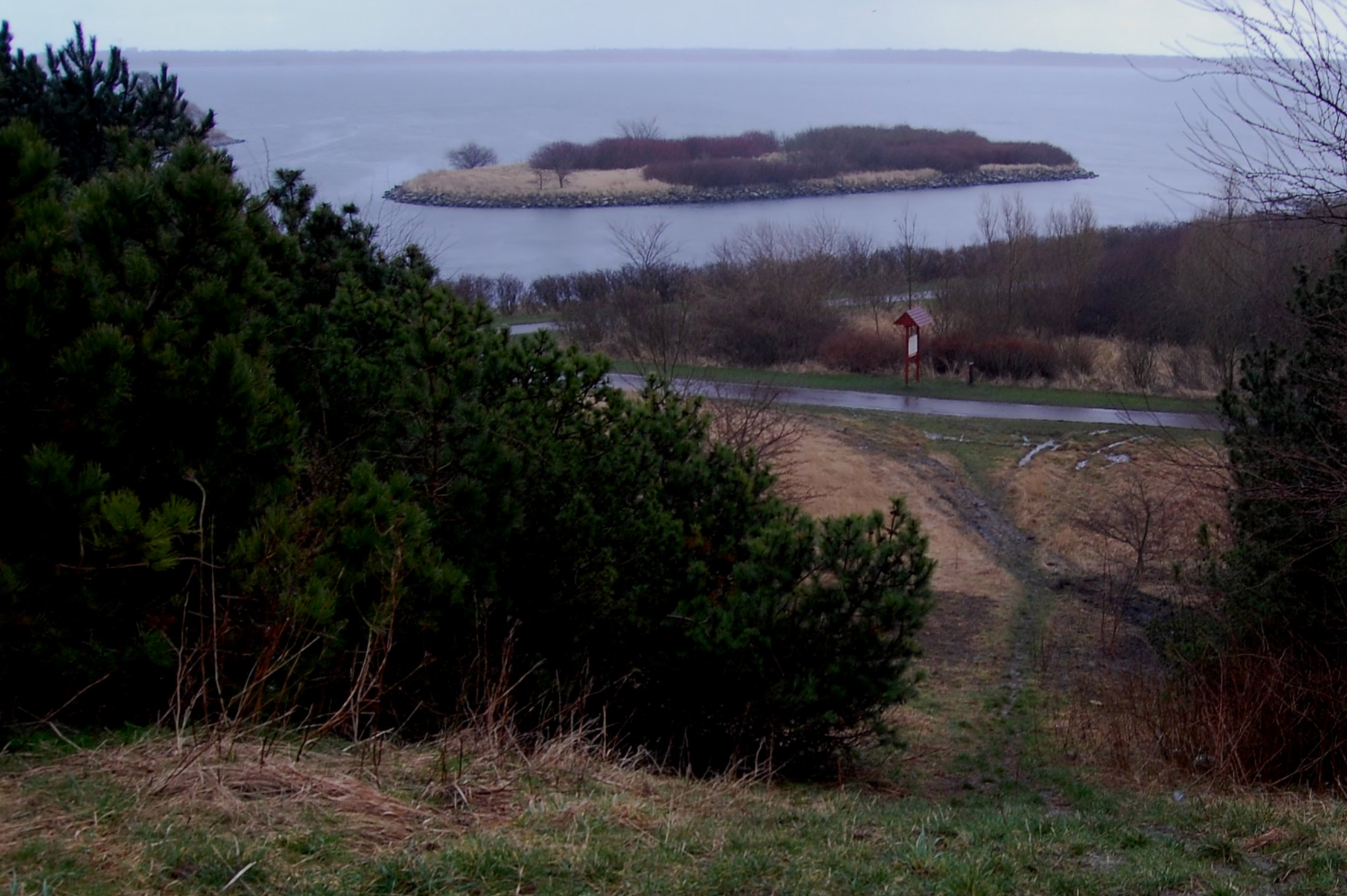 Photo from the top of the hill in Kystagerparken